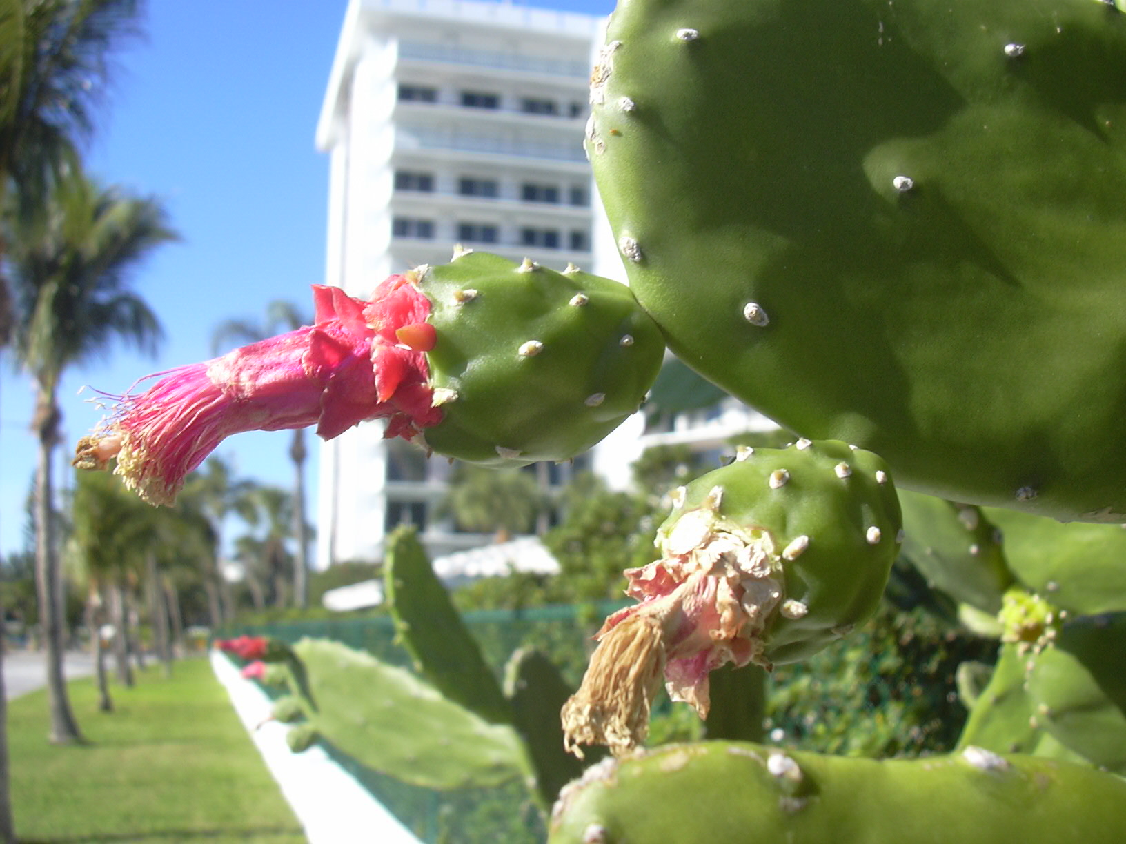 Opuntia cochenillifera (flowers). Location: Florida, Lido Beach